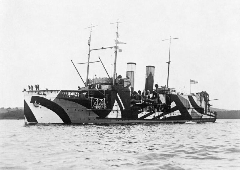 Photograph of British seaplane tender HMS Pegasus (1917). (Original text: HMAS PEGASUS in Dazzle camouflage)